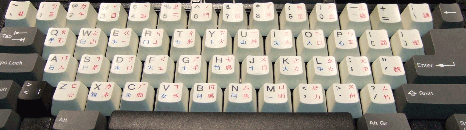 An QWERTY keyboard with the radicals of Cangjie inpput method, Dayi inpput method and Bopomofo.